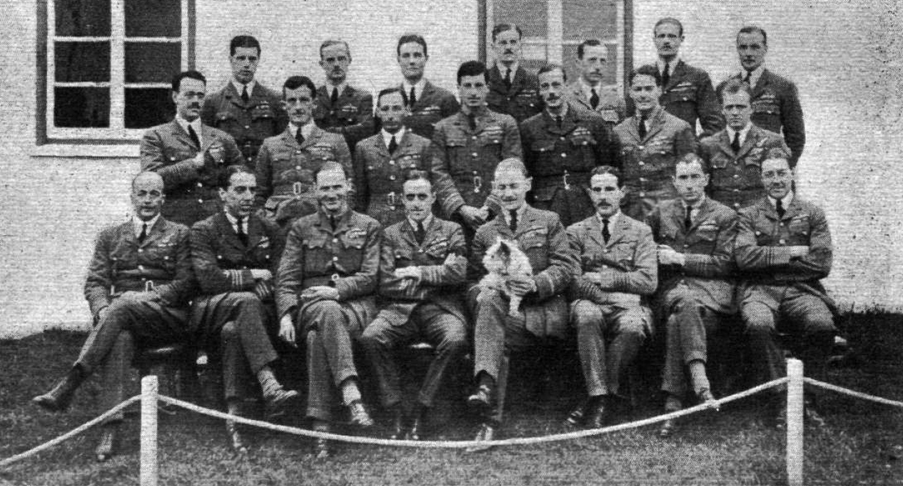 The first RAF Staff College course at Andover.Front Row (shown left to right): Flight Lieutenant C B Dick-Cleland (Adjutant), Wing Commander R E C Peirse, Squadron Leader B E Sutton (Directing Staff), Wing Commander C H K Edmonds (Directing Staff), Air Commodore H R M Brooke- Popham (Commandant) (shown with dog Jane on lap), Group Captain P B Joubert de la Ferté (Directing Staff), Wing Commander W R Freeman ( Directing Staff), Flight Lieutenant C H HaywardMiddle Row: Squadron Leader H S Powell, Squadron Leader C W H Pulford Squadron Leader E B Beauman, Squadron Leader C F A Portal Squadron Leader L L MacLean, Flight Lieutenant R M Drummond, Flight Lieutenant E B C BettsBack Row: Flight Lieutenant N W Wadham, Flight Lieutenant J B Cole-Hamilton, Flight Lieutenant W B Farrington, Flight Lieutenant G M Lawson, Flight Lieutenant H S Kerby, Squadron Leader K R Park, Flight Lieutenant W R D Acland